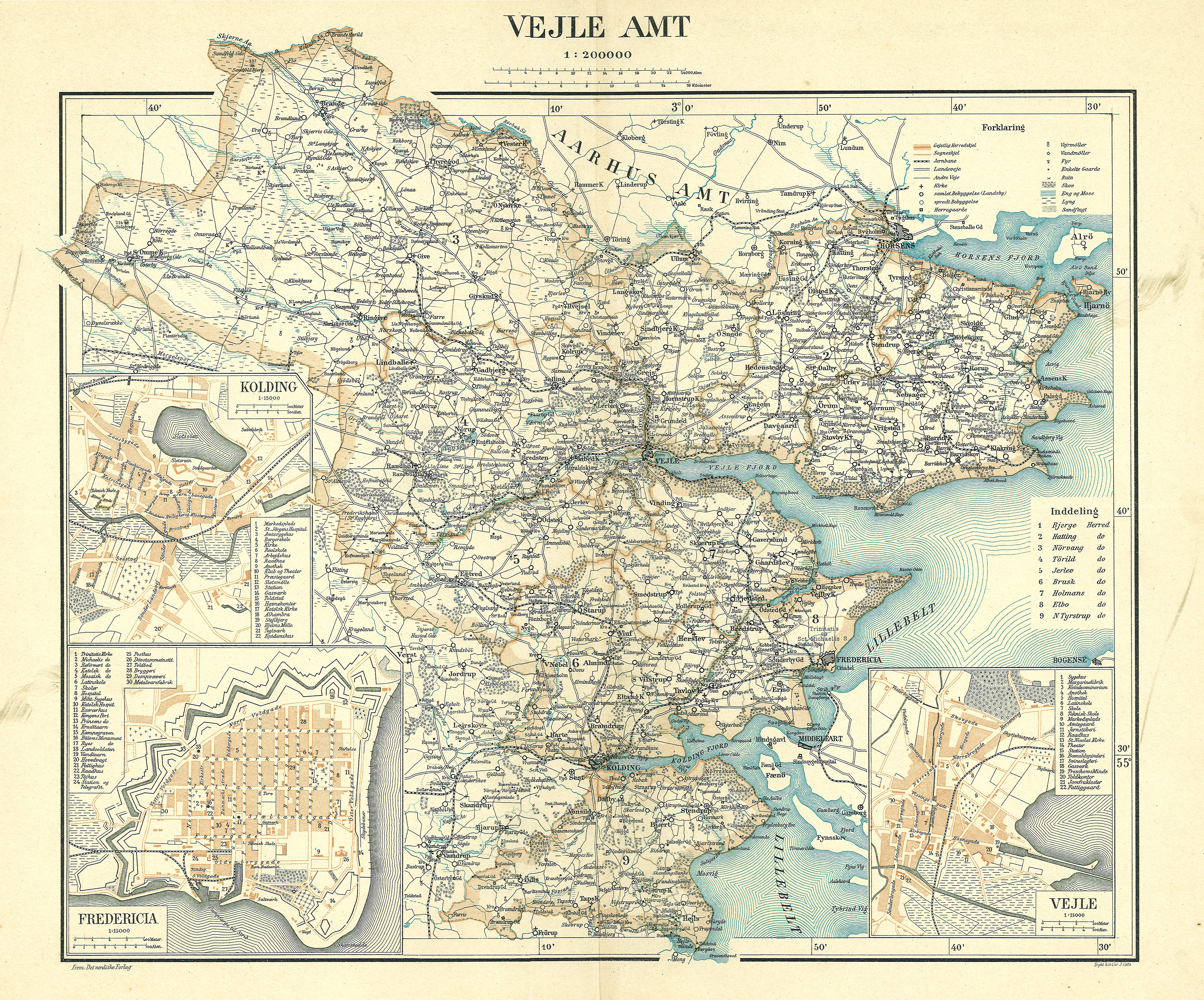 Map of Vejle County in Denmark